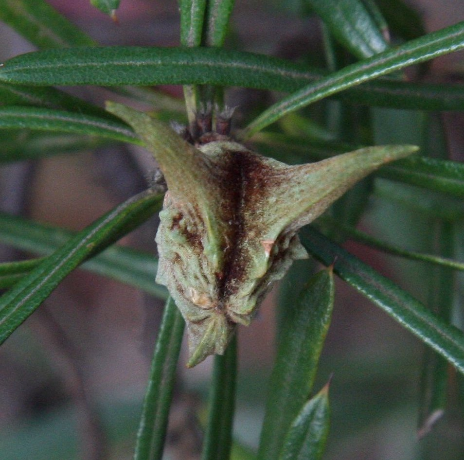 Developing green seed pod of Lambertia formosa (shaped like devil's head from which plant gets its common name of 'Mountain Devil'